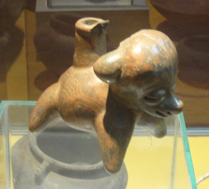 Ceramic Xulo Dog, Museo El Ceibo, Ometepe, Nicaragua.